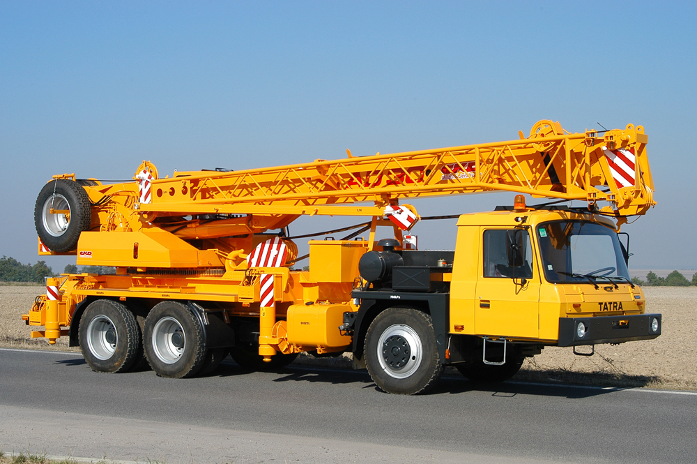 Autojerab-AD30